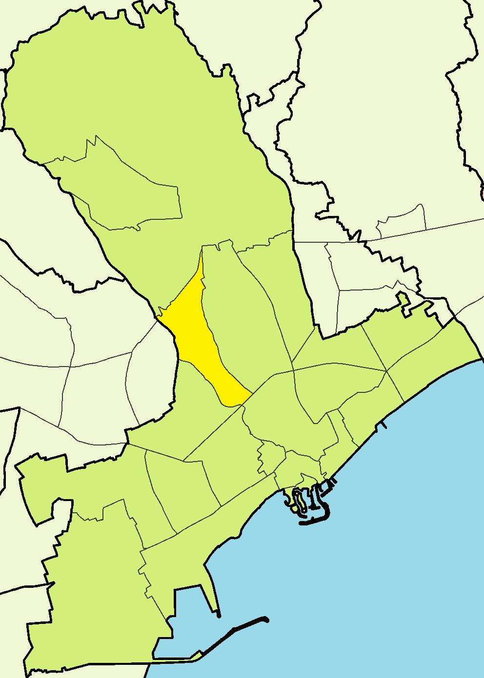 Agios Georgios in Limassol Municipality